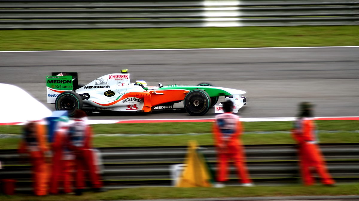 Giancarlo Fisichella at 2009 Malaysian Grand Prix, Sepang, Malaysia.